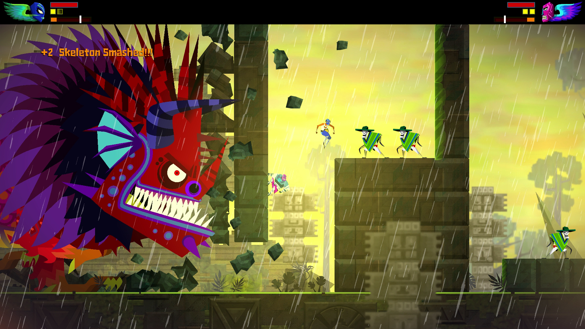 Screenshot from Guacamelee!